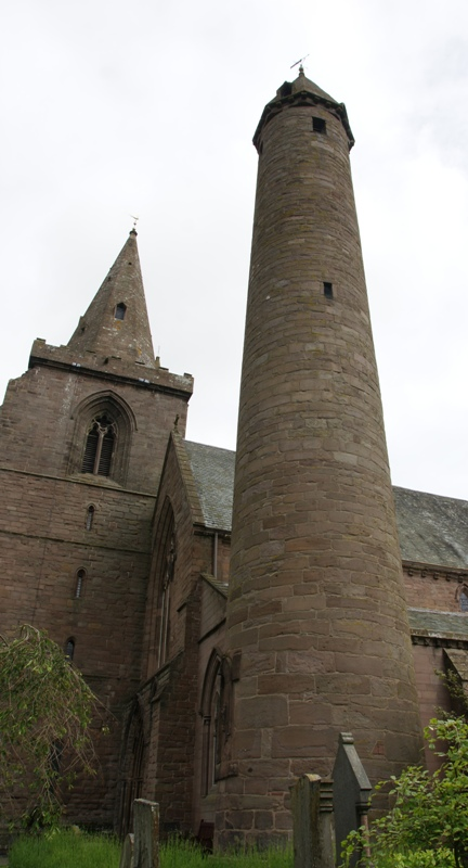 Brechin Cathedral Round Tower, Brechin, Angus, Scotland